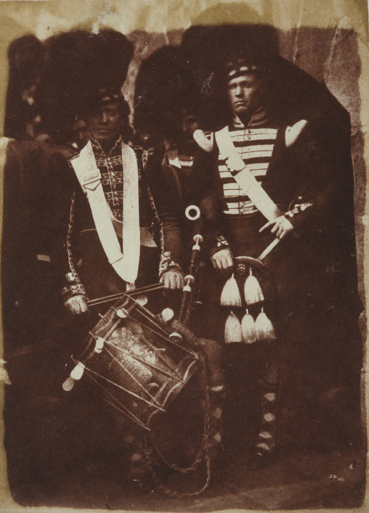 Robert Adamson, David Octavius Hill April 1846 Accession no. PGP HA 346 Medium Calotype print Size 20.80 x 15.70 cm Credit Provenance unknown For more information please select here.